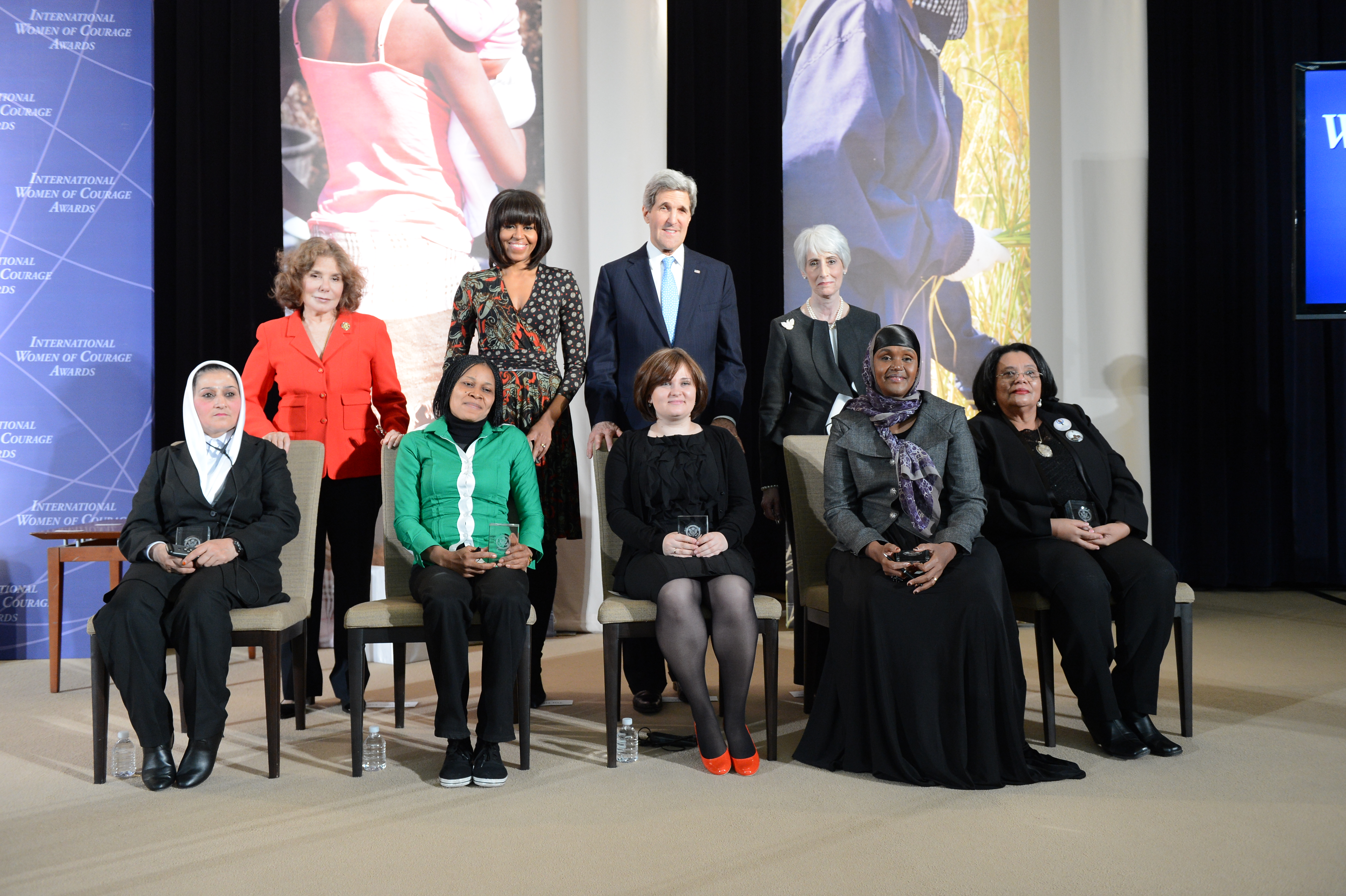 Standing from left to right, Mrs. Teresa Heinz Kerry, First Lady Michelle Obama, U.S. Secretary of State John Kerry, and U.S. Under Secretary of State for Political Affairs Wendy Sherman pose for a photo with the 2013 International Women of Courage Award Winners, including left to right, Second Lieutenant Malalai Bahaduri of Afghanistan, Dr. Josephine Obiajulu Odumakinof Nigeria, Elena Milashina of Russia, Fartuun Adan of Somalia, and Julieta Castellanos of Honduras, at the U.S. Department of State in Washington, D.C., on March 8, 2013. [State Department photo/ Public Domain]